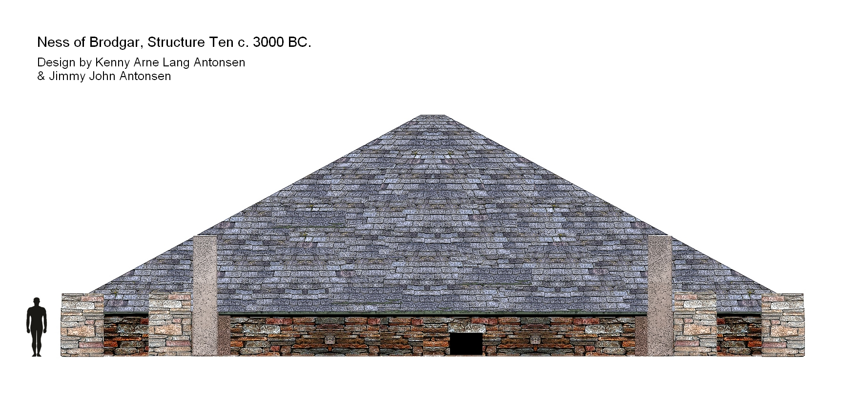 Ness of Brodgar, Structure Ten.